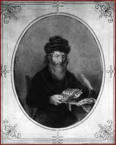 Oil painting based on Ber Frank Halevi’s drawing (mid-19th century)Beth Hatefutsoth is brought to show age of painting.